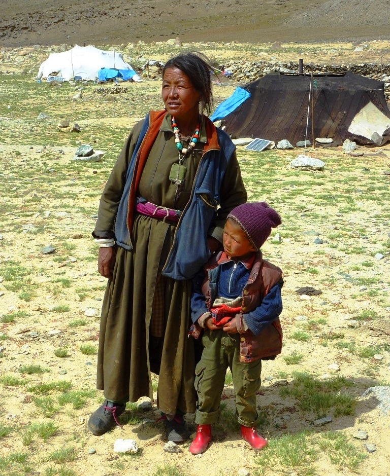 I took this photo when touring through Ladakh in 2010